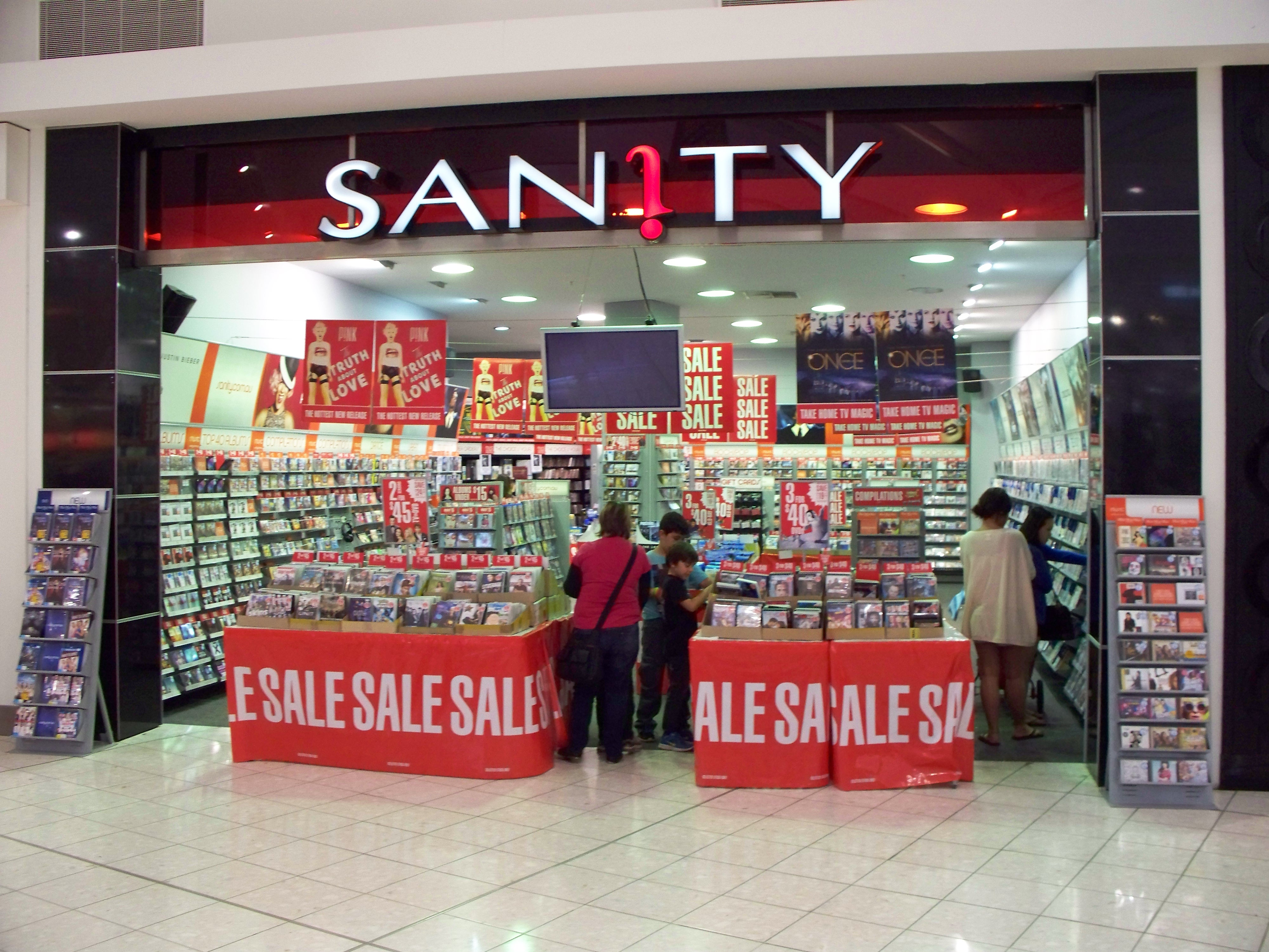 A Sanity outlet within the Watergardens Town Centre, Taylors Lakes, a north-western suburb of Melbourne.